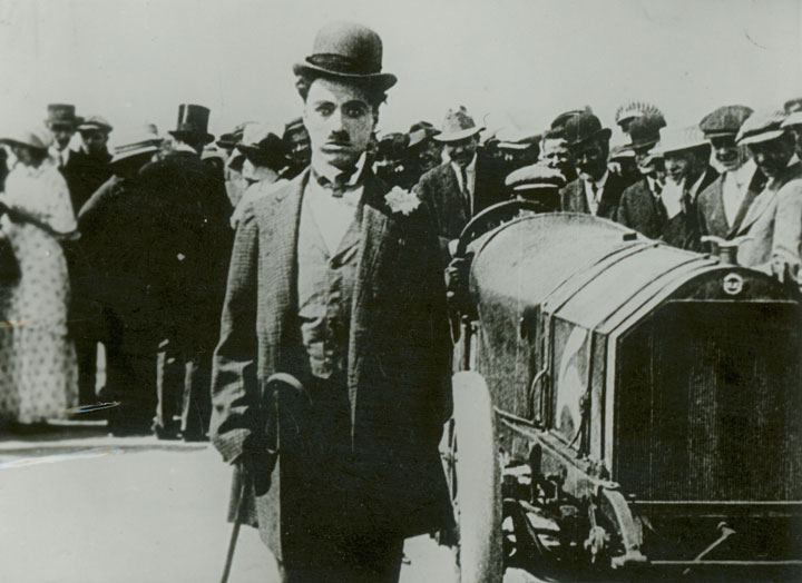 Charlie Chaplin starring in Mabel's Busy Day (1914), written and directed by Mabel Normand (1892-1930)